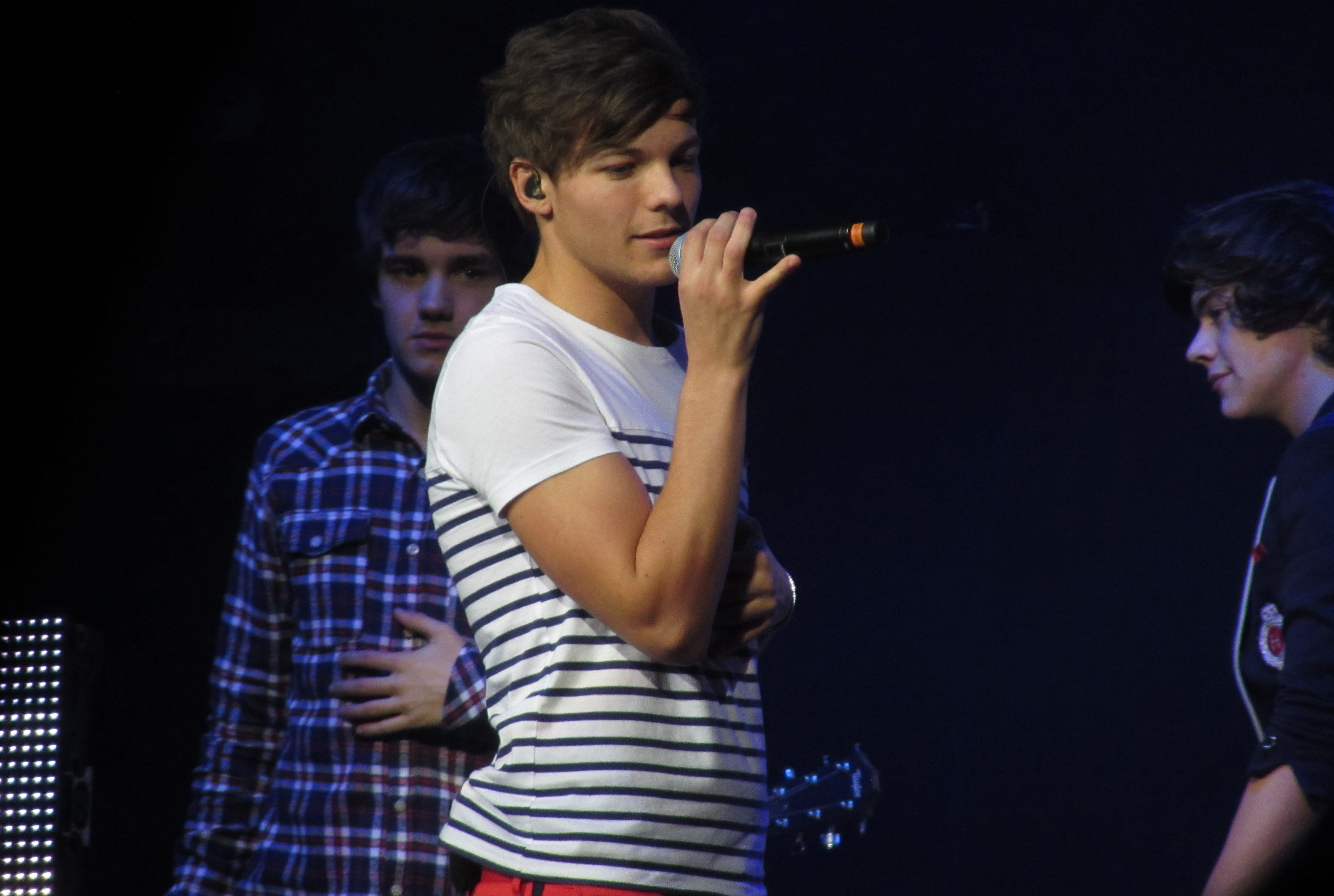 Louis Tomlinson (foreground) and Liam Payne Glasgow and Harry Styles (background), One Direction, Clyde Auditorium, Glasgow, Saturday 14 January 2012